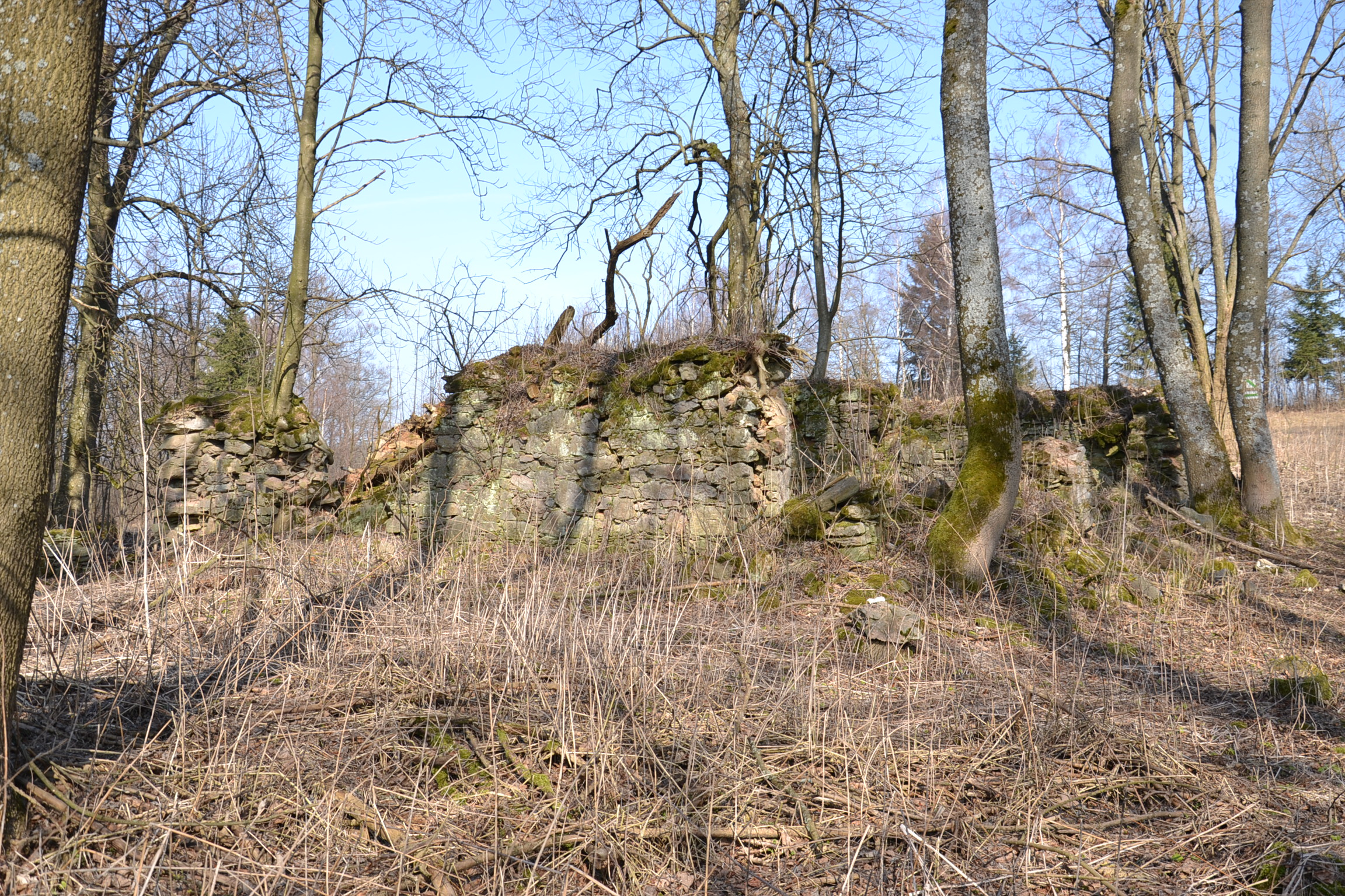 Rothflössel (Czerwony Strumień) - ruins of the baroque house